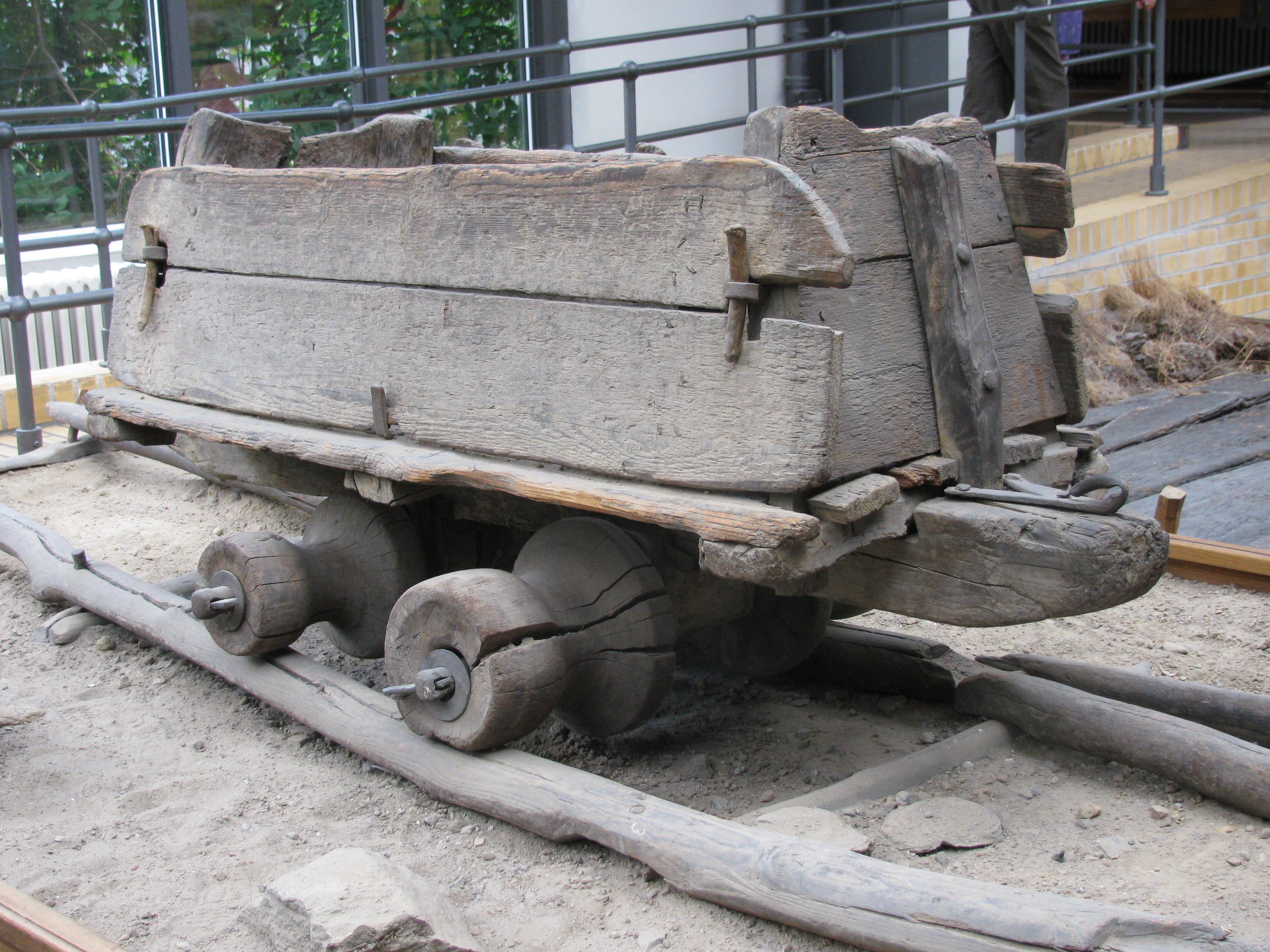 Wooden rail and railway from the 16th century, Berlin